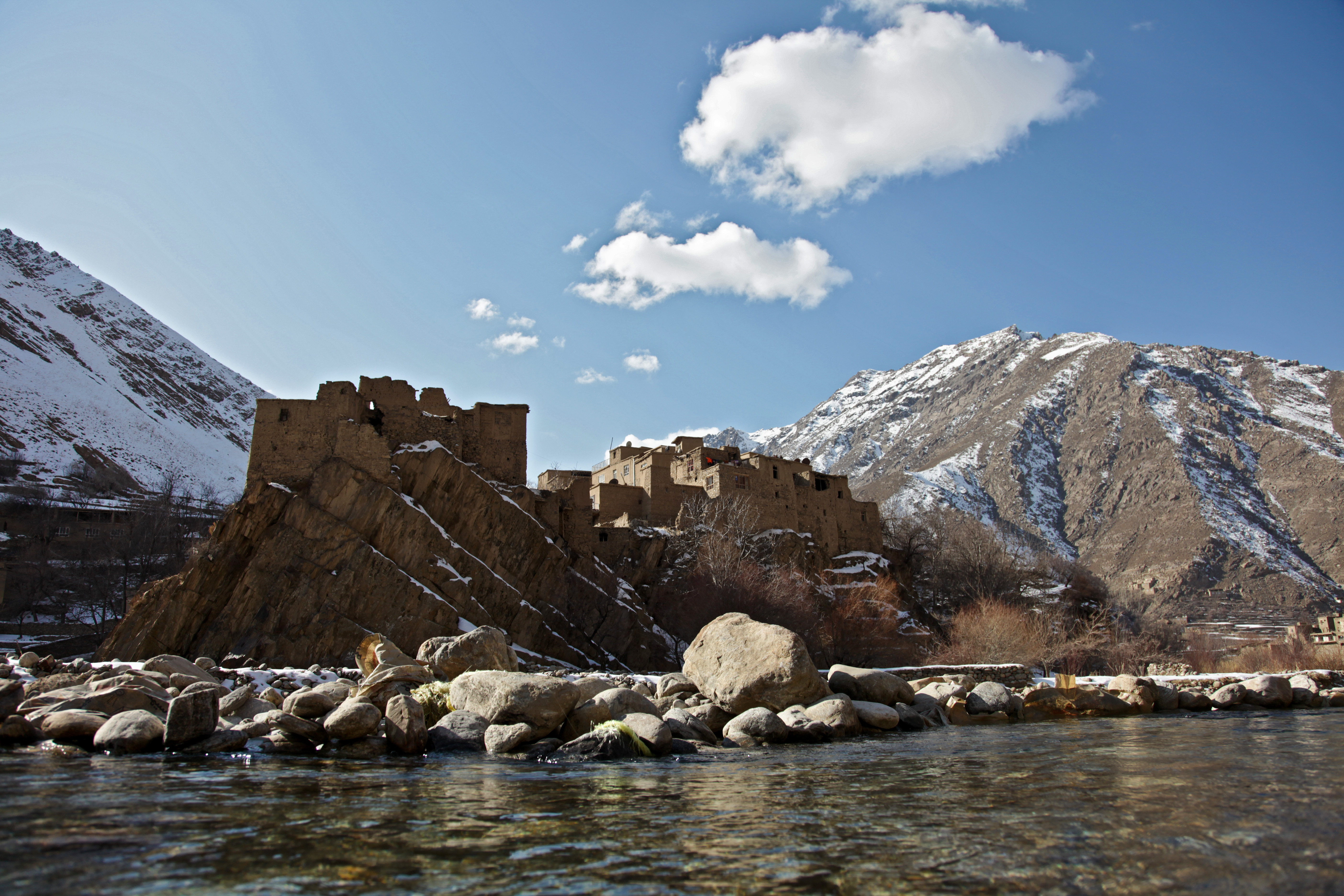 A group of houses sit over a rocky foundation across the river in the Dara District of Panjshir Province, Afghanistan.